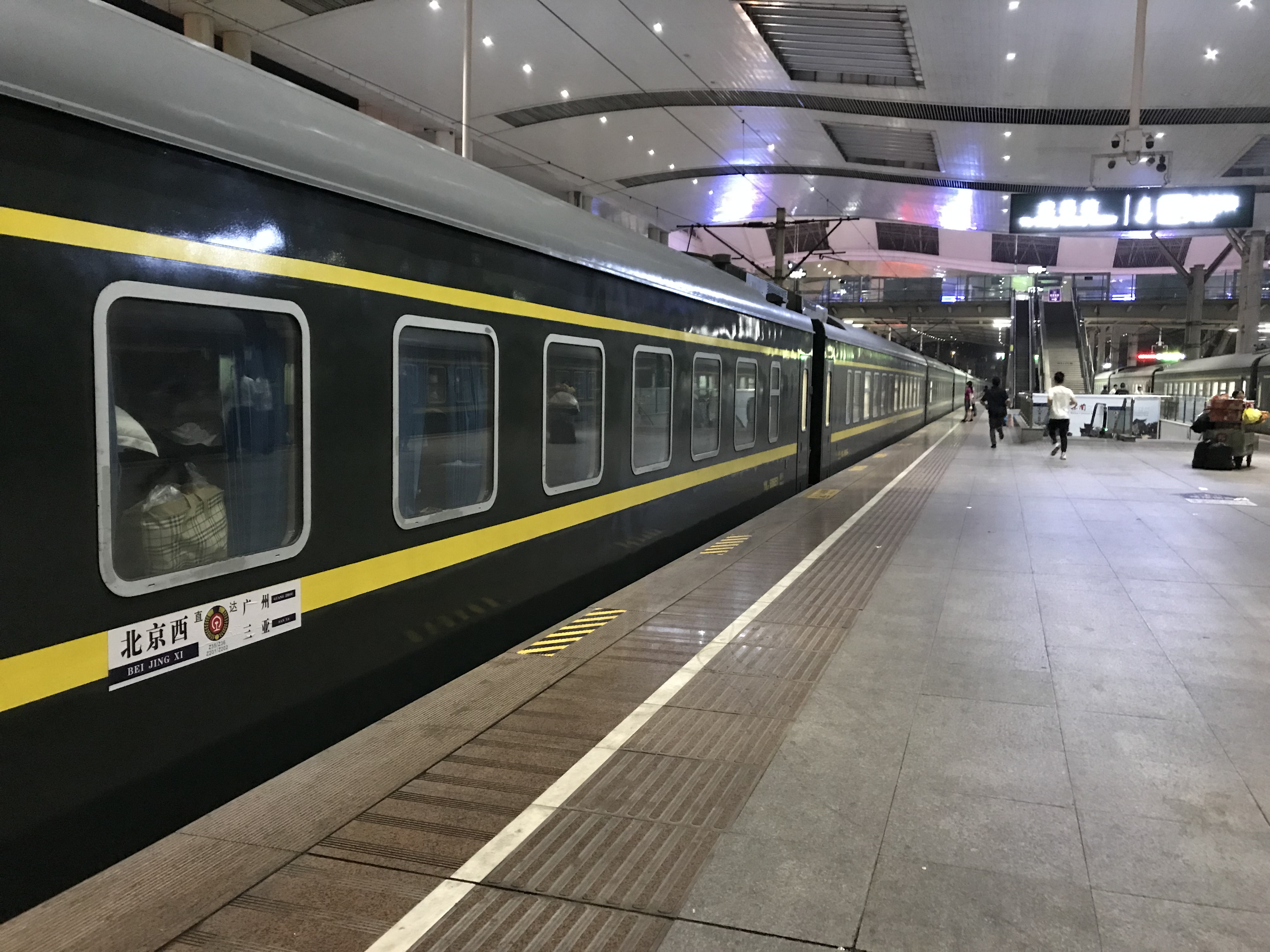 Z35 from Beijingxi to Guangzhou